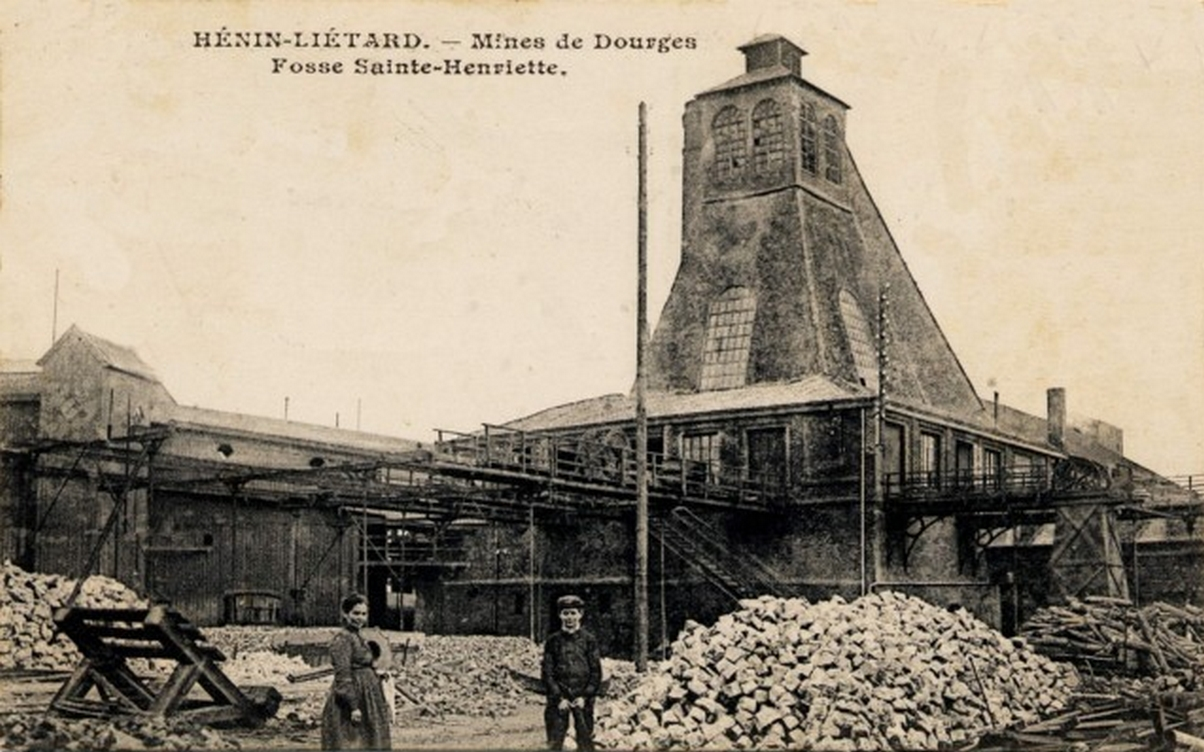 Compagnie des mines de Dourges, Pas-de-Calais, France.